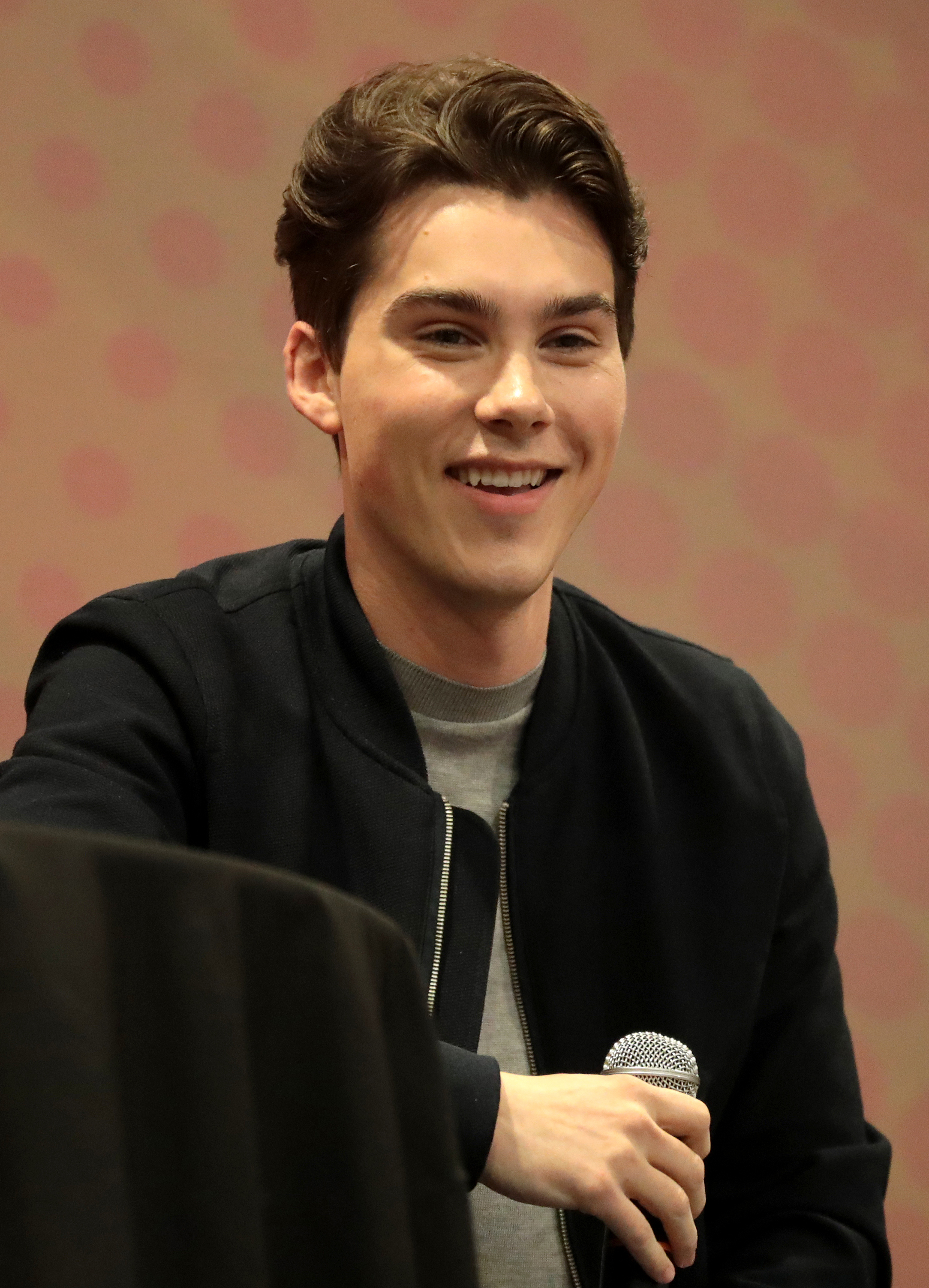 Jeremy Shada speaking at the 2019 Phoenix Fan Fusion in Phoenix, Arizona.